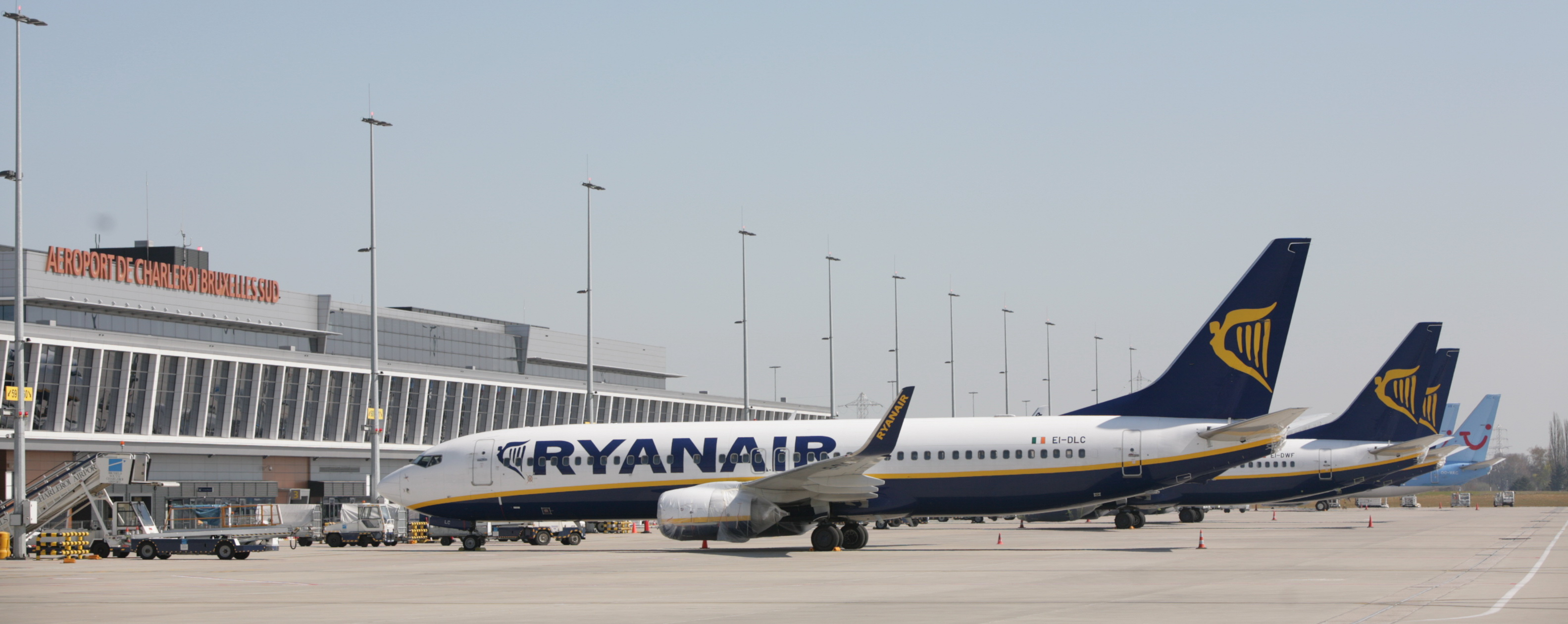 CHARLEROI, BELGIUM 17/04/2010 : The BSCA is empty since a volcanic ash cloud disrupts air traffic in Belgium, so the Brussels South charleroi airport is closed . 17/04/2010 ( Photos by Christophe Vandercam )